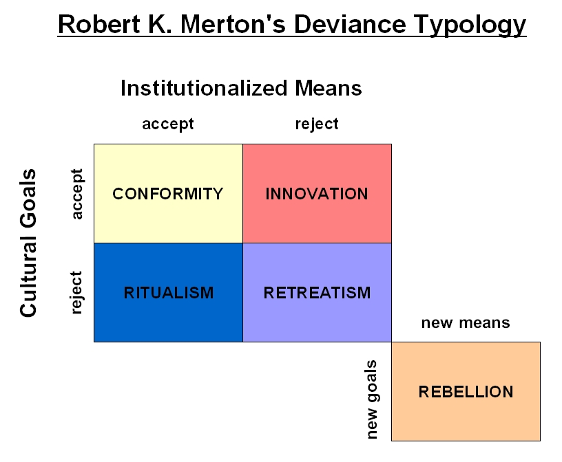 This is a diagram depicting Robert K. Merton's Social Strain Theory.